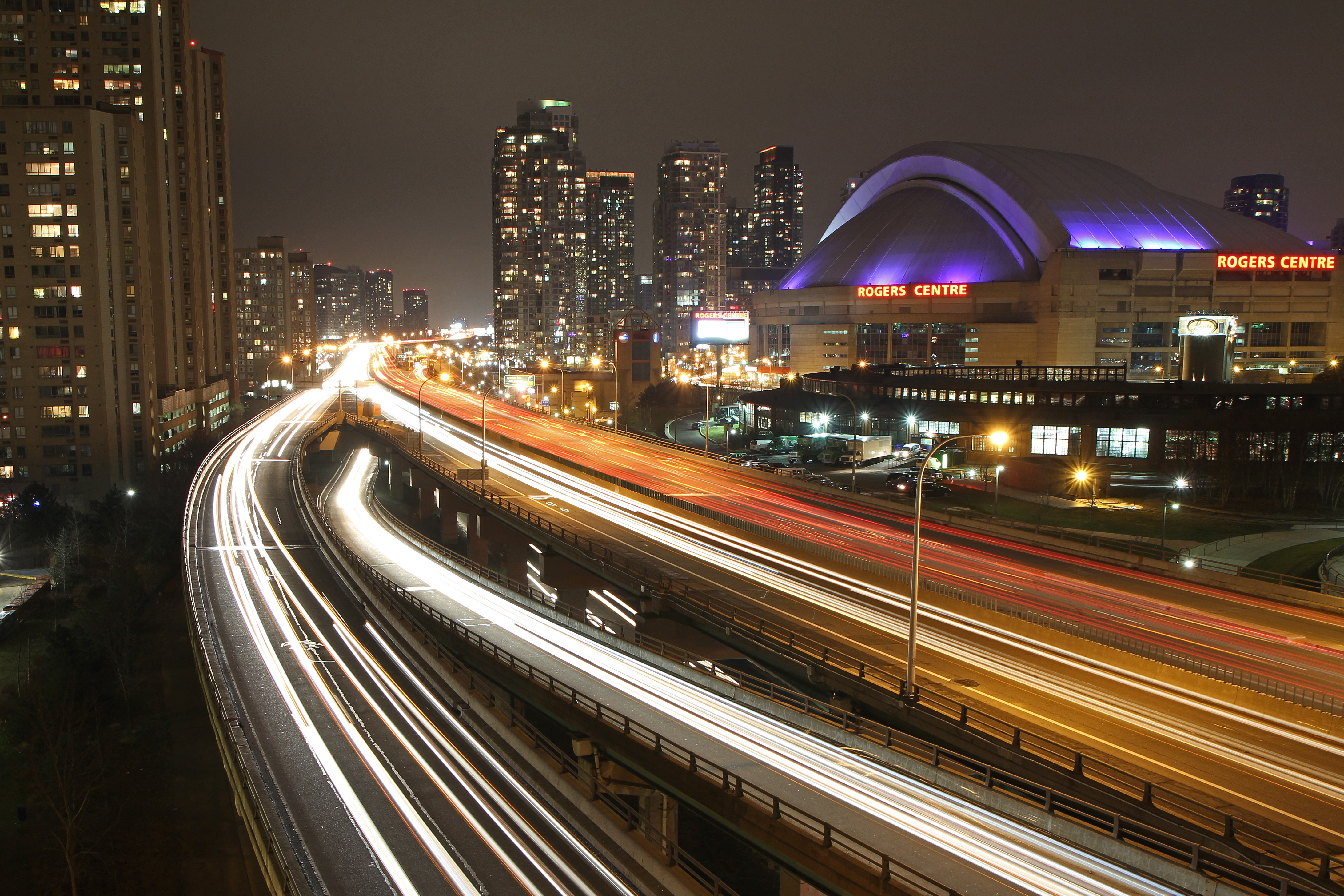 Looking across the Gardiner Expressway to the Rogers Centre.